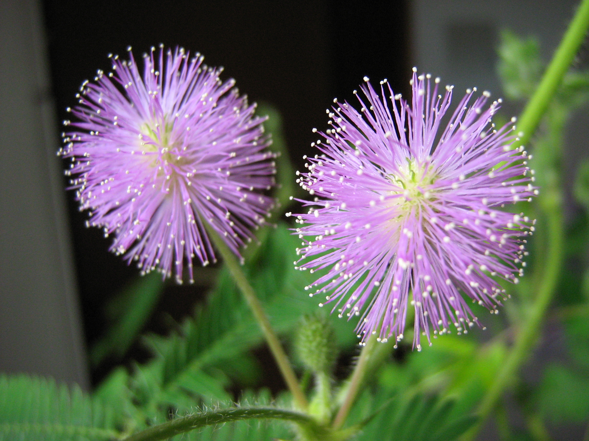 The fluffy flower of the Mimosa pudica (sensitive plant).